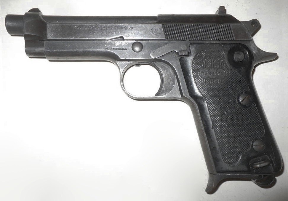 Egyptian contract model 1951 Beretta pistol.